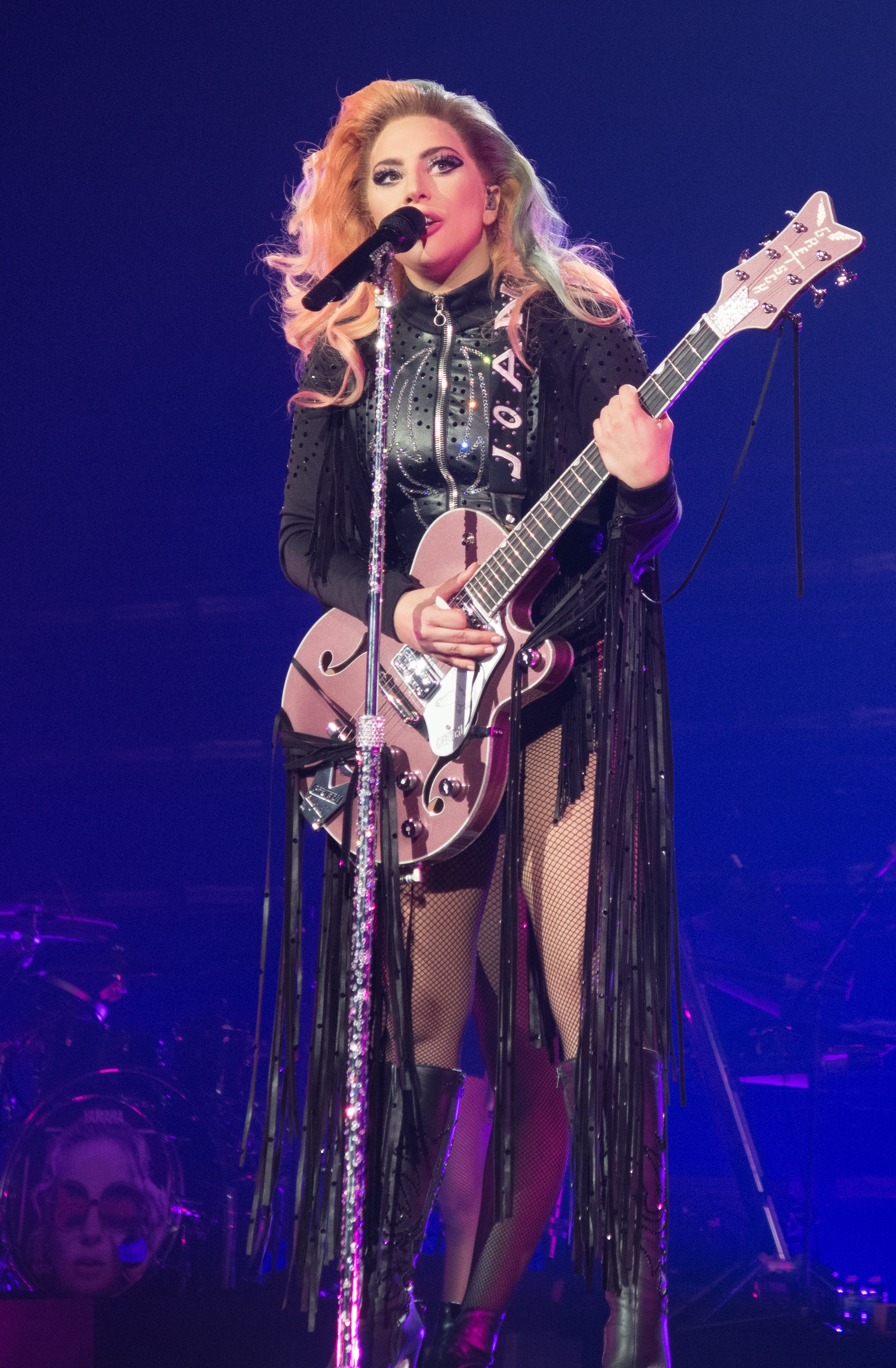 Lady Gaga performing "A-Yo" during her Joanne World Tour in Toronto, 2017